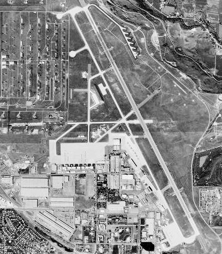 USGS orthophoto of Hill Air Force Base in Utah, United States